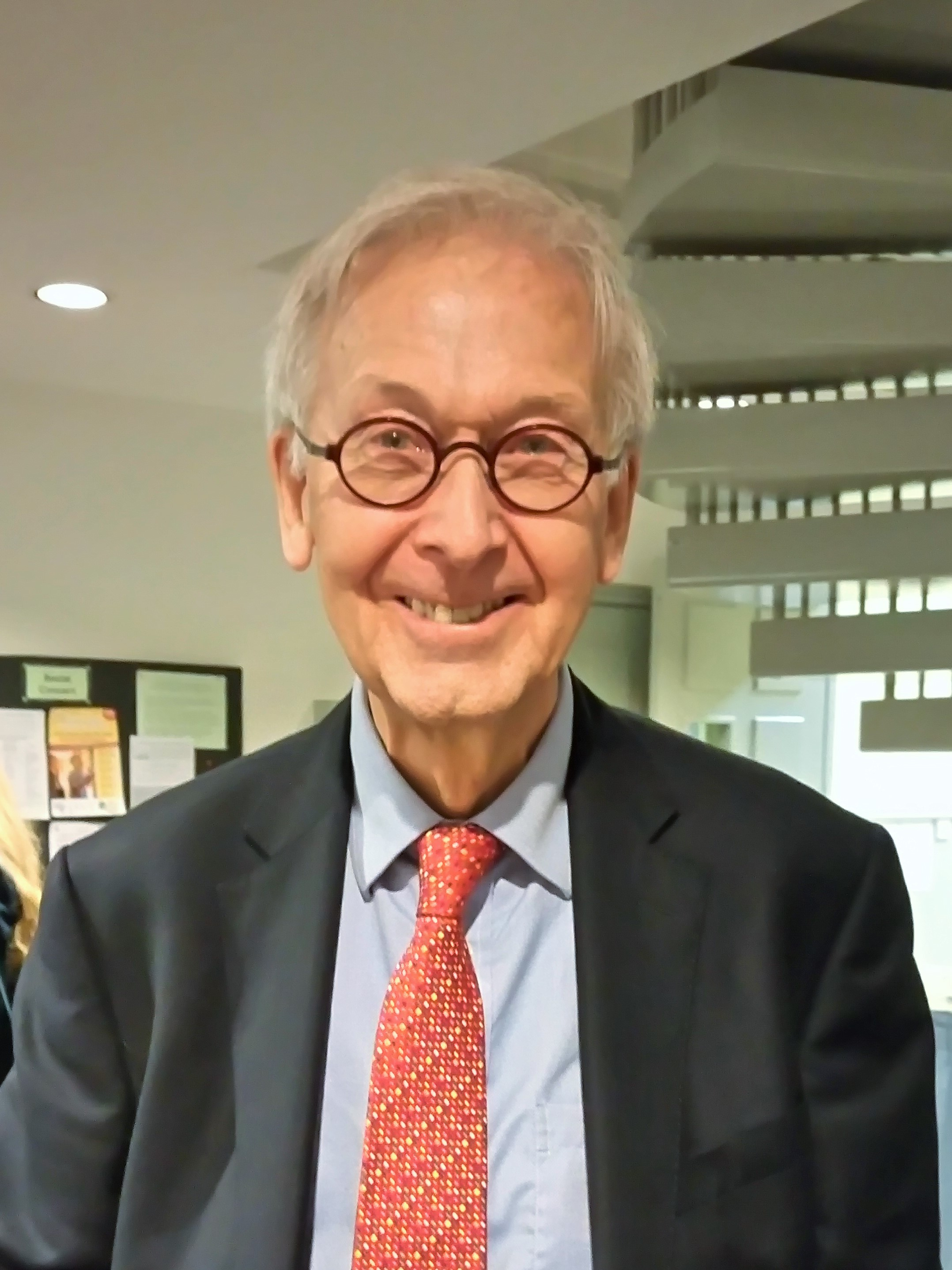 Sir Colin Humphreys speaking at a Faraday Institute event, Cambridge, November 2015.